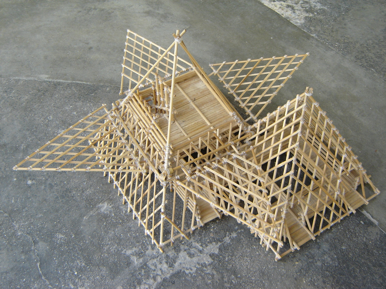 Pyramids